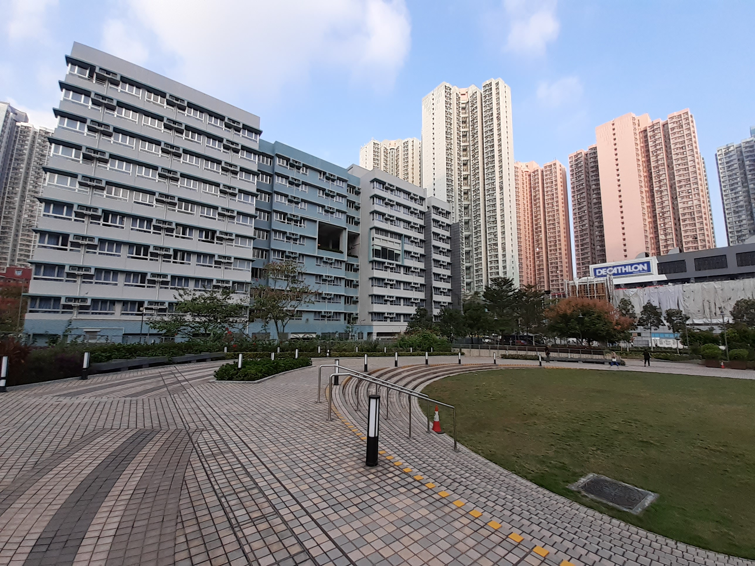 HK TKO 將軍澳 Tseung Kwan O 唐明街公園 Tong Ming Street Park in November 2019